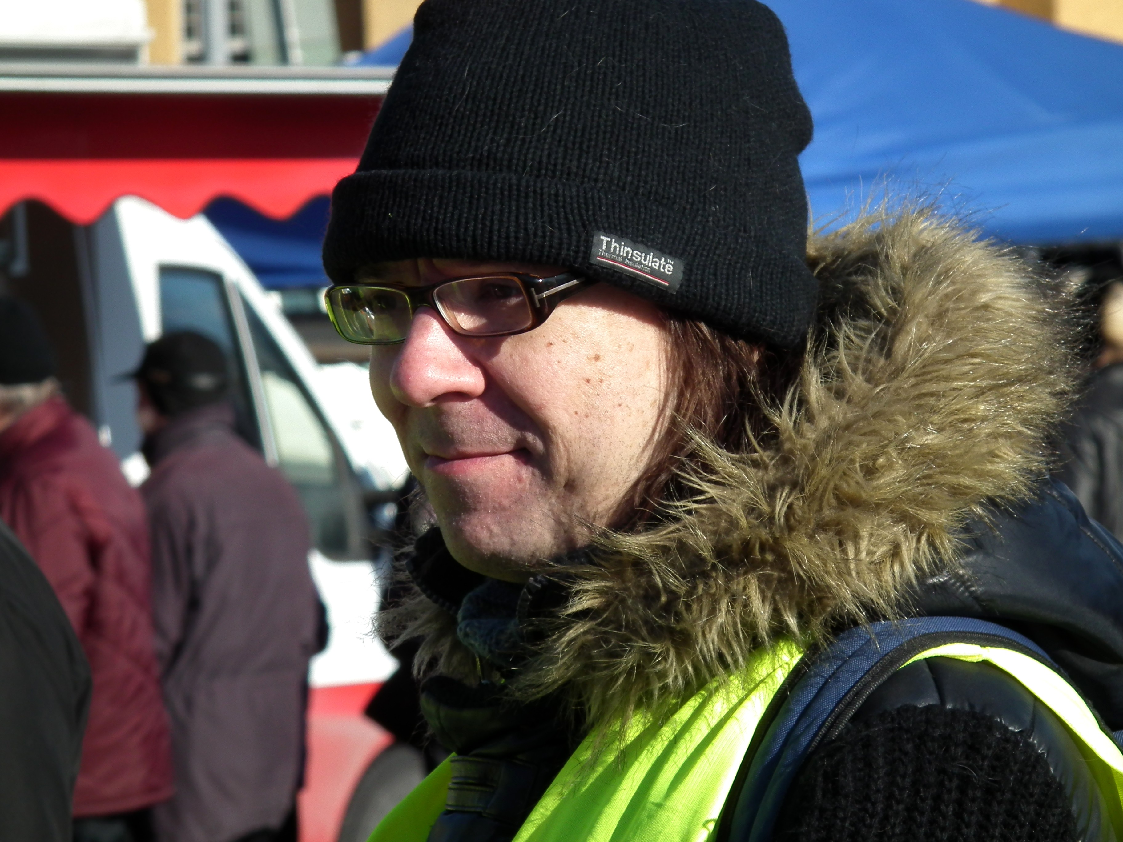 Finnish composer and songwriter Petri Kaivanto